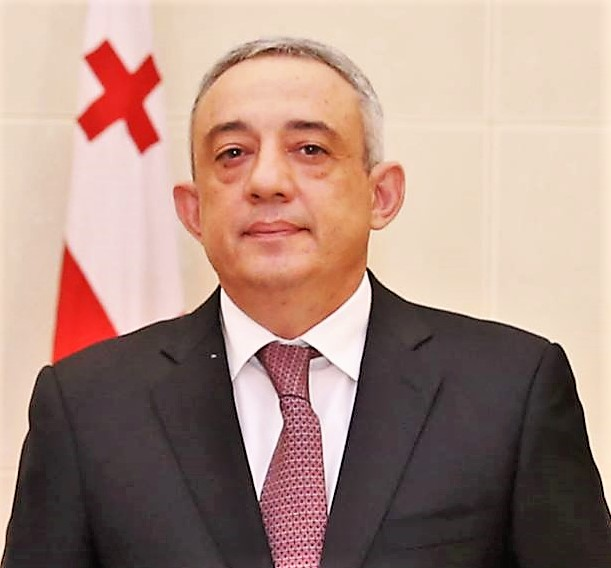 Irakli Assaschwili, ambassador of Georgia to East Timor